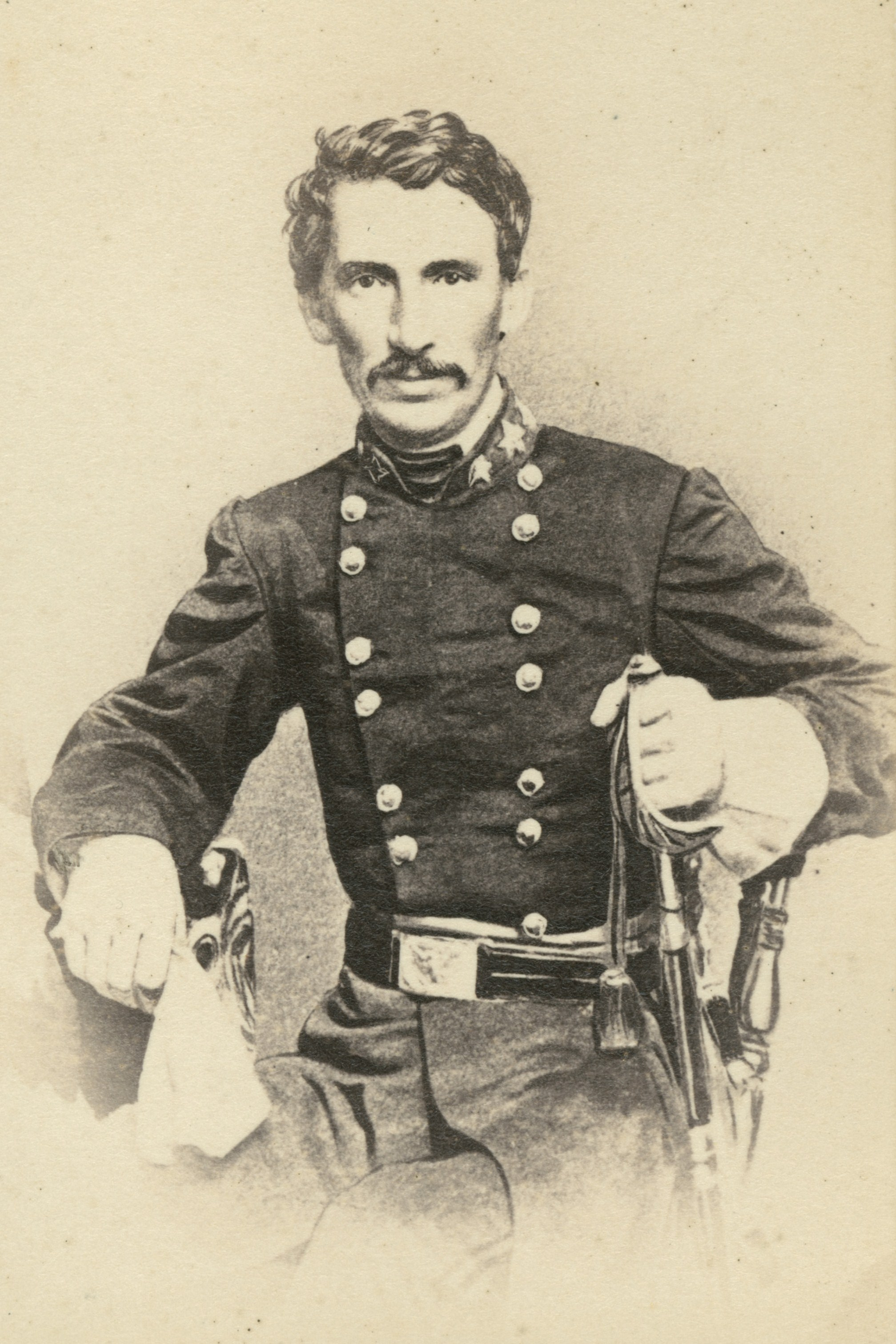 Carte de visite of Meriwether Jeff Thompson, Brigadier General, Missouri State Guard, posing in uniform with cavalry saber. Thompson participated in several notable Civil War battles, including the Battle of Fredericktown, Battle of Westport, and Battle of Mine Creek, Duke Libraries, Digital Collections, William Emerson Strong Photograph Album